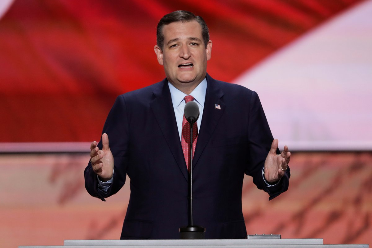 Ted Cruz speaks at the 2016 RNC